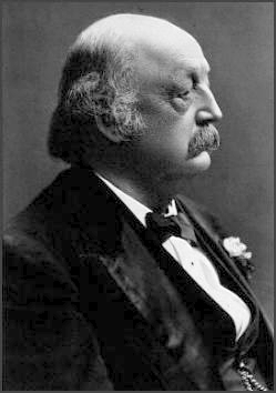 From